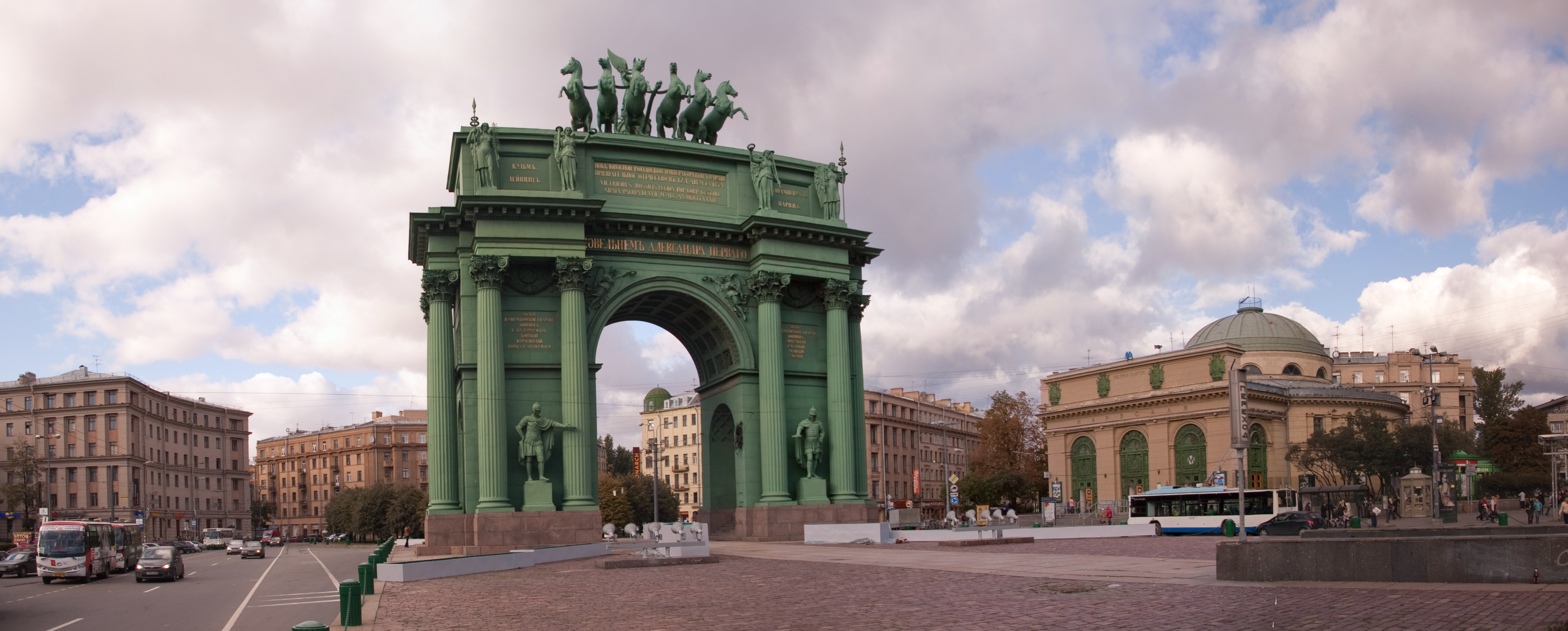 Narva Triumphal Arch.